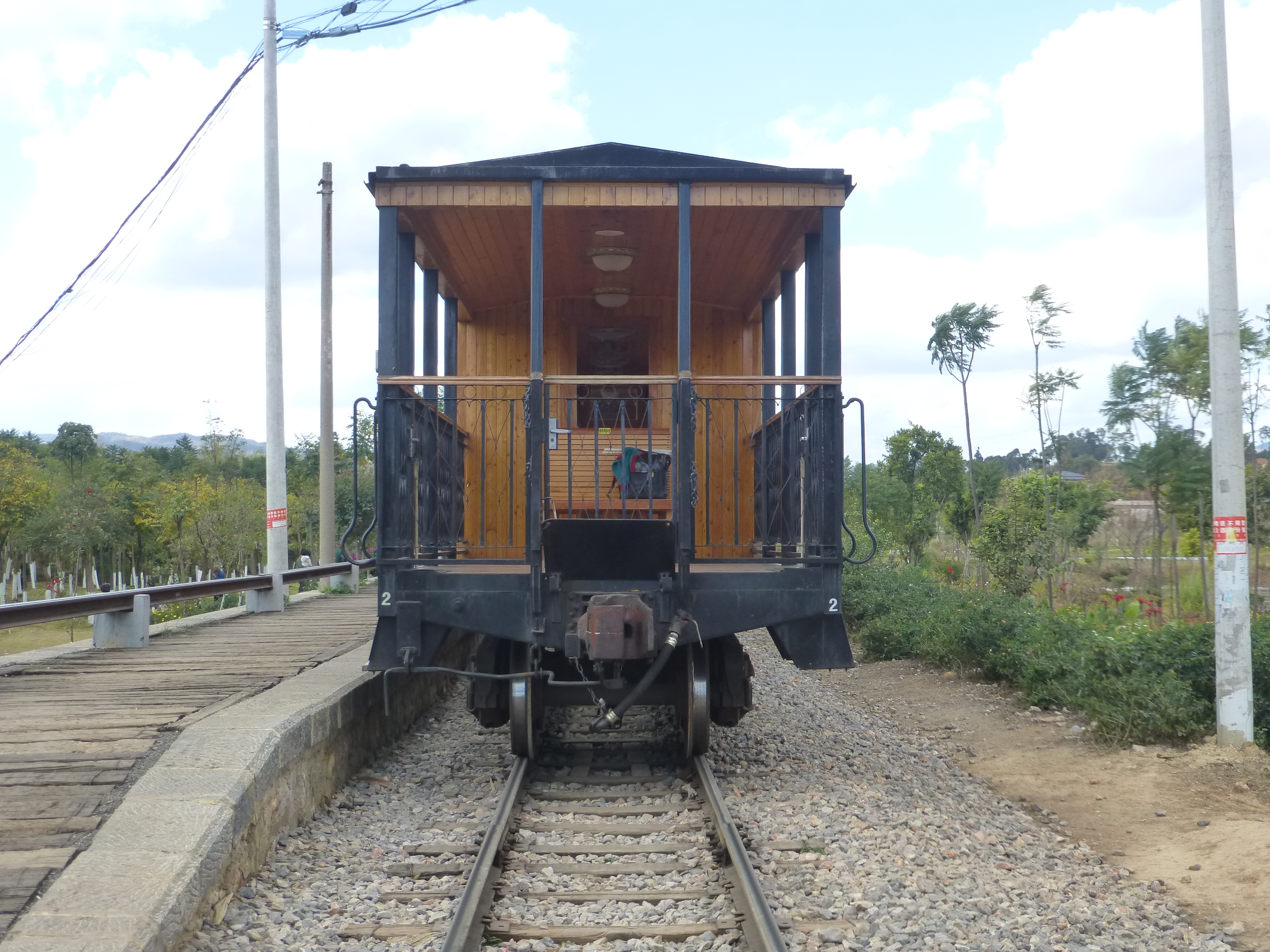 Shuanglongqiao Railway Station, on the Meng-Bao Railway, near the Shuanglong (Double Dragon) bridge southwest of Lin'an Town, Jianshui County. It is a small platform for the tourist train that runs between Lin'an and Tuanshan